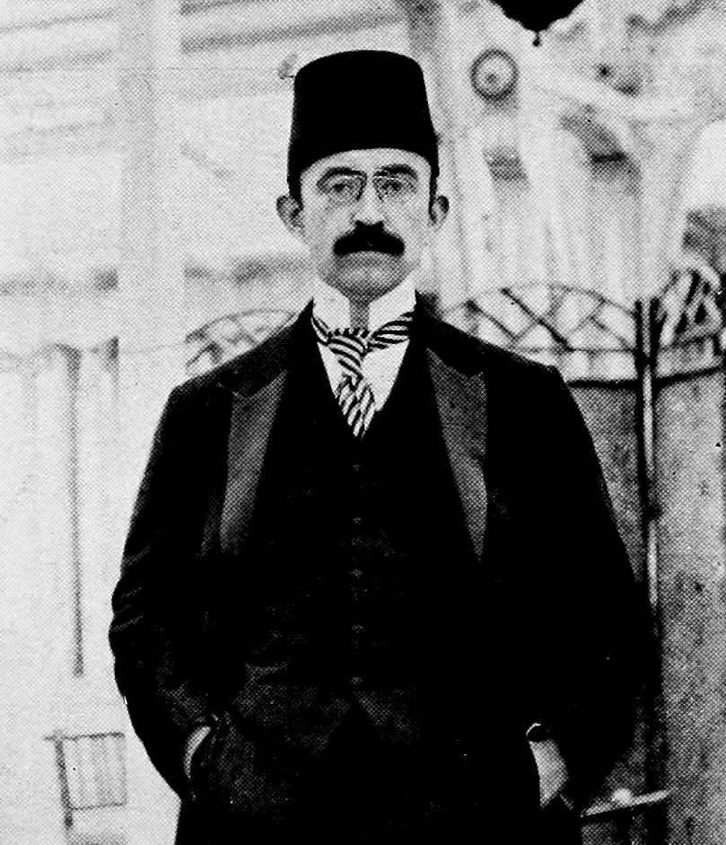 Djavid Bey